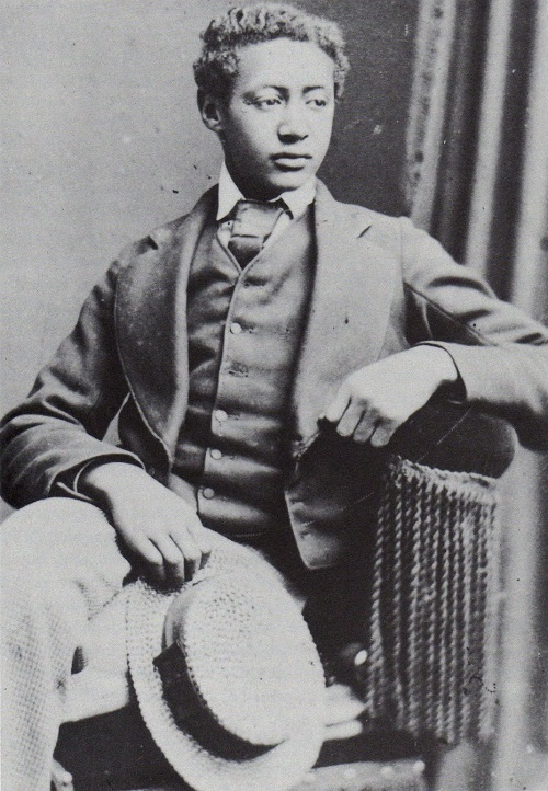 HIH Prince Alemayehu or Alamayou of Ethiopia (23 April 1861 – 14 November 1879) was the son of Emperor Tewodros II of Ethiopia. Emperor Tewodros II committed suicide after his defeat by the British, led by Sir Robert Napier, at the Battle of Magdala in 1868.